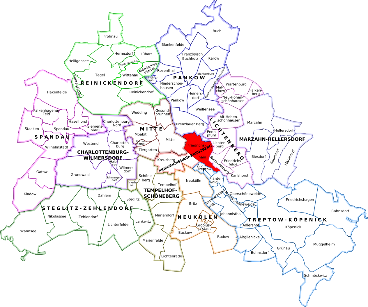 A map of the location of Friedrichshain in Berlin